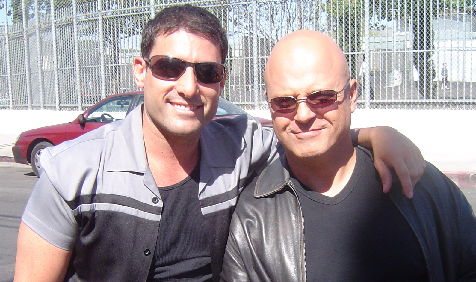 Template:OTRS pending/LANGCODE